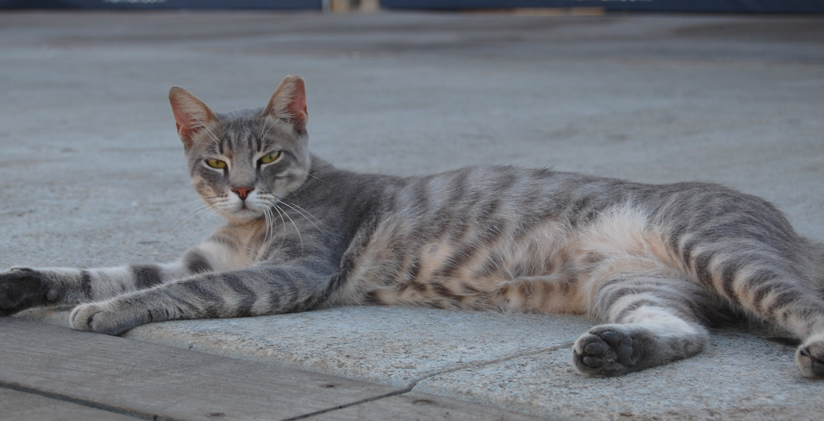 cat in sea of tel-aviv